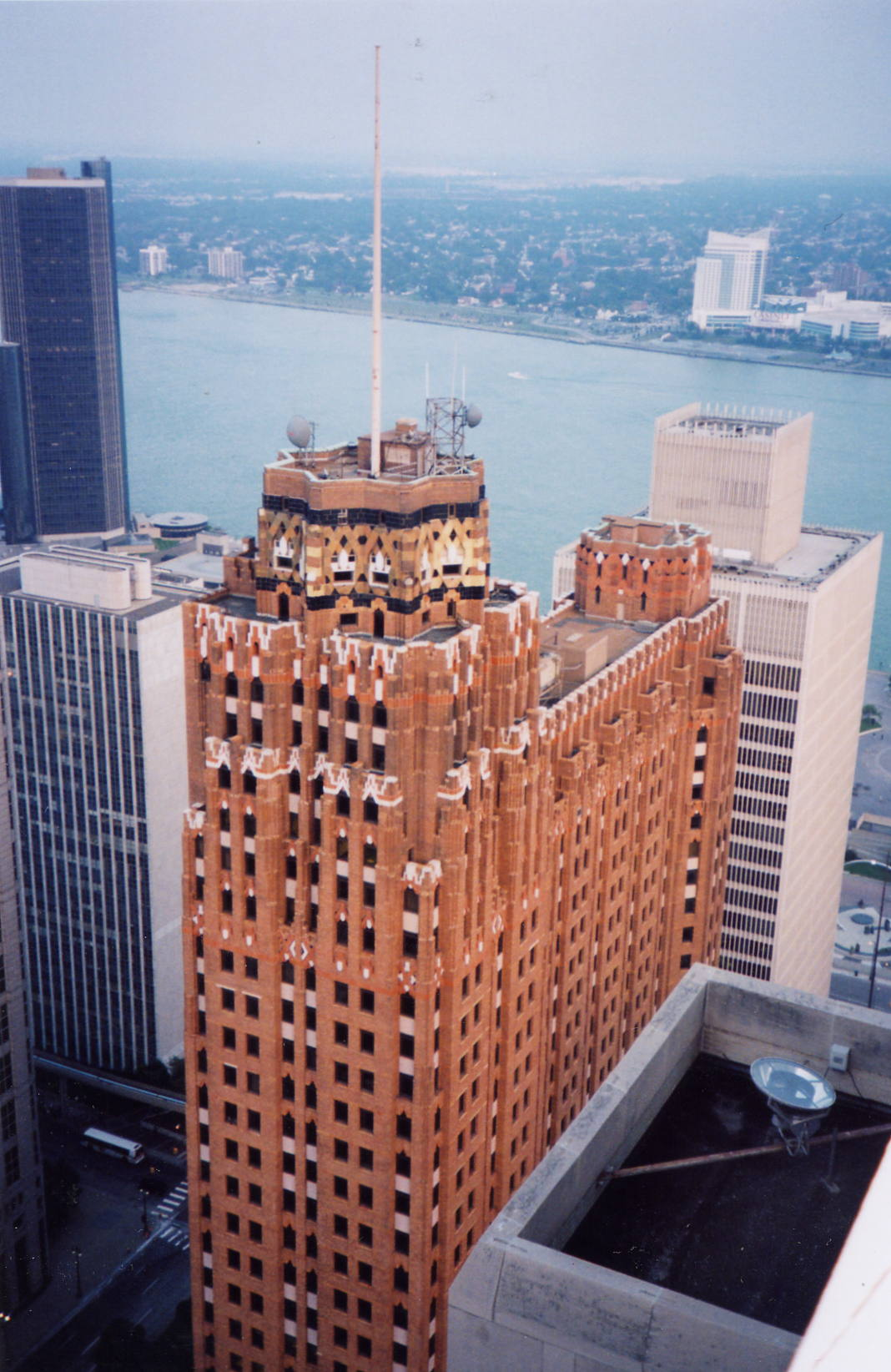 The Guardian Building in Detroit, Michigan, United States, is listed on the US National Register of Historic Places (NRHP) and is a designated National Historic Landmark. The Detroit River is seen in the background.